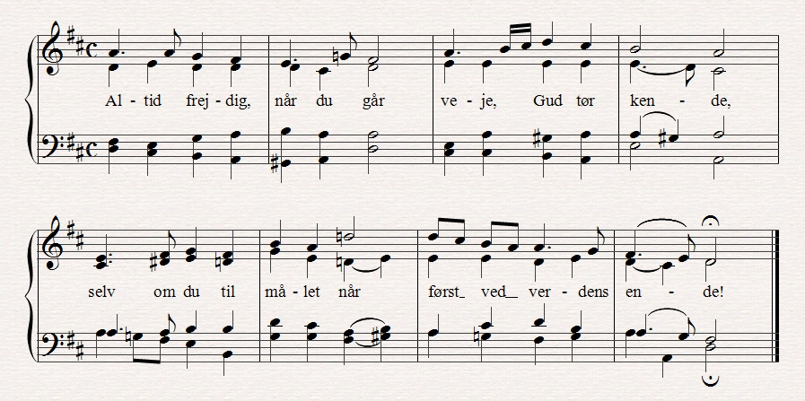 Tune and first stanza of the Danish hymn 'Altid frejdig, når du går'. Lyrics by Christian Richardt (1867) and music by C. E. F. Weyse (1838). The file is made with the program Sibelius 6.